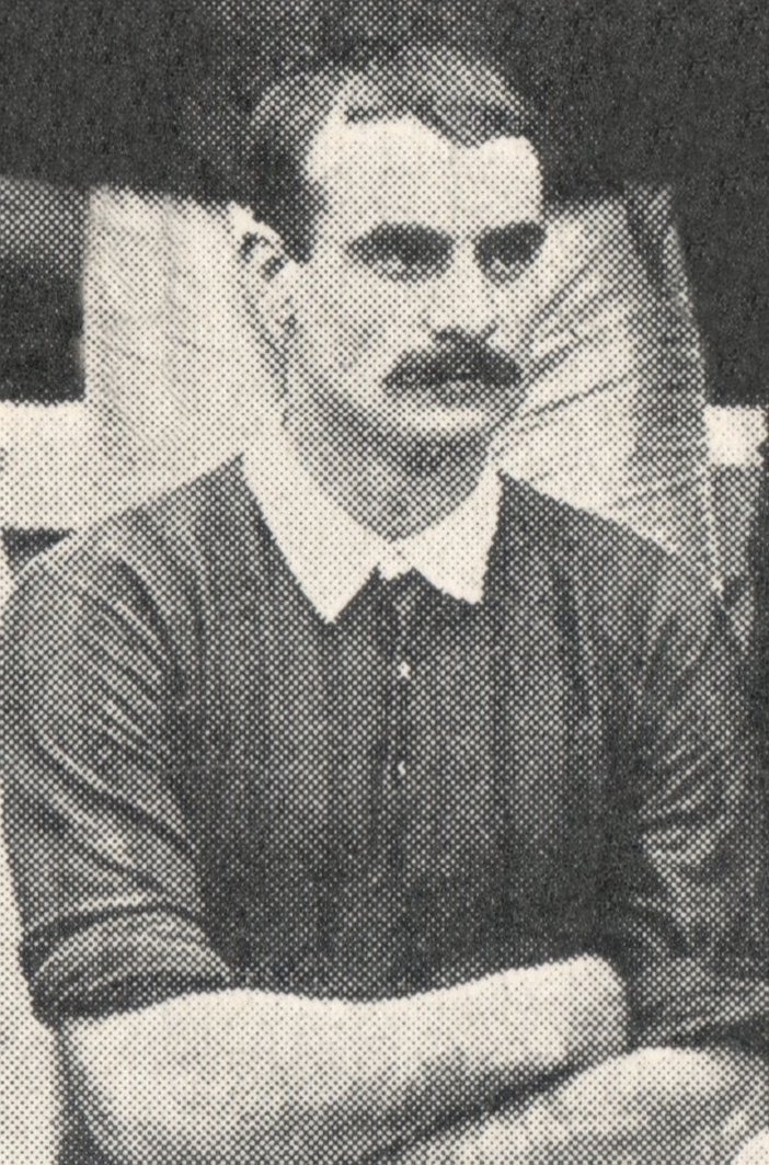 Jimmy Jay while at Brentford FC 1905/06